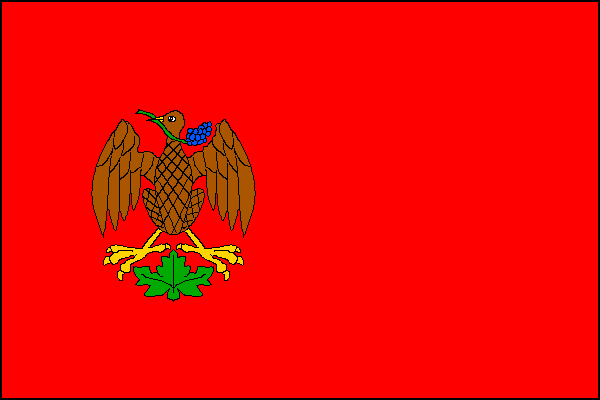 Municipal flag of Dolní Kounice town, Brno-Country District, Czech Republic.